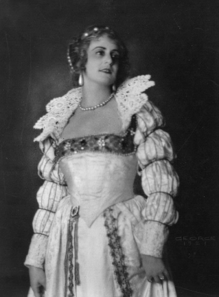 Olga Raphael-Linden Swedish actor